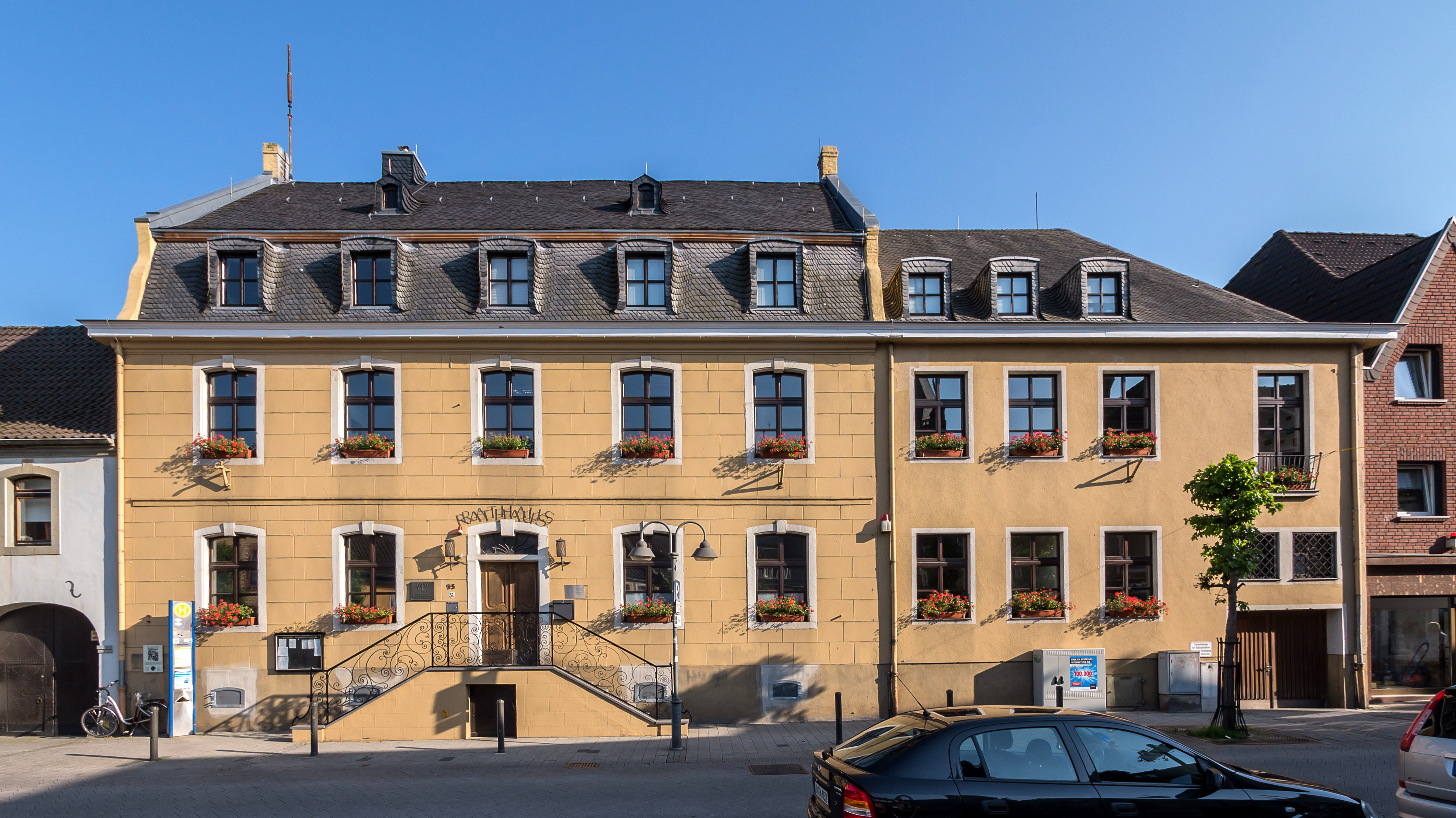 Bedburg - Friedrich-Wilhelm-Straße 43 RathausThis is a photograph of an architectural monument., no. 38